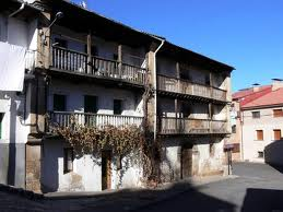 casas de los ferrones